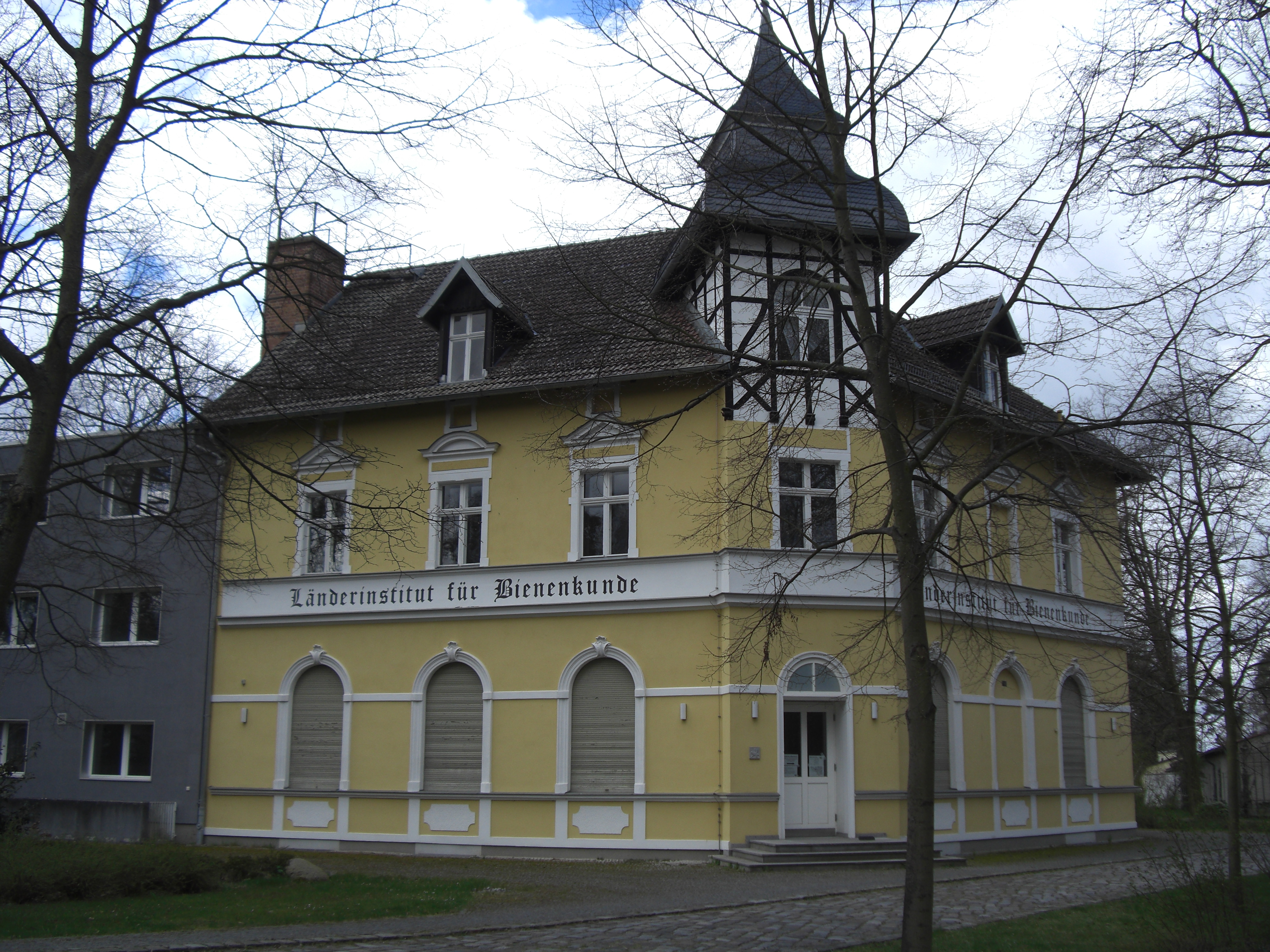 Länderinstitut für Bienenkunde